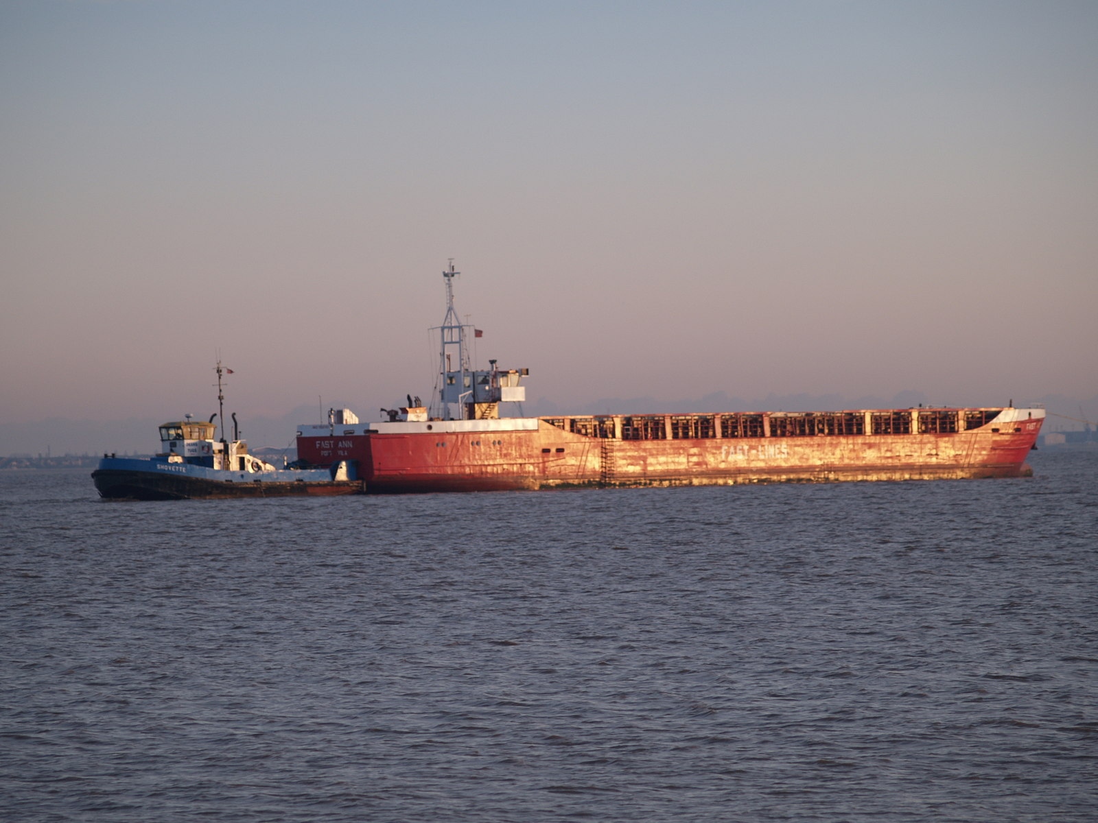 Fast Ann Fast Ann on the humber on her way to New Holland Breakers Yard